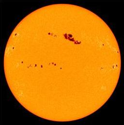 Image of the sun's solar disk, showing sunpsots on the surface.